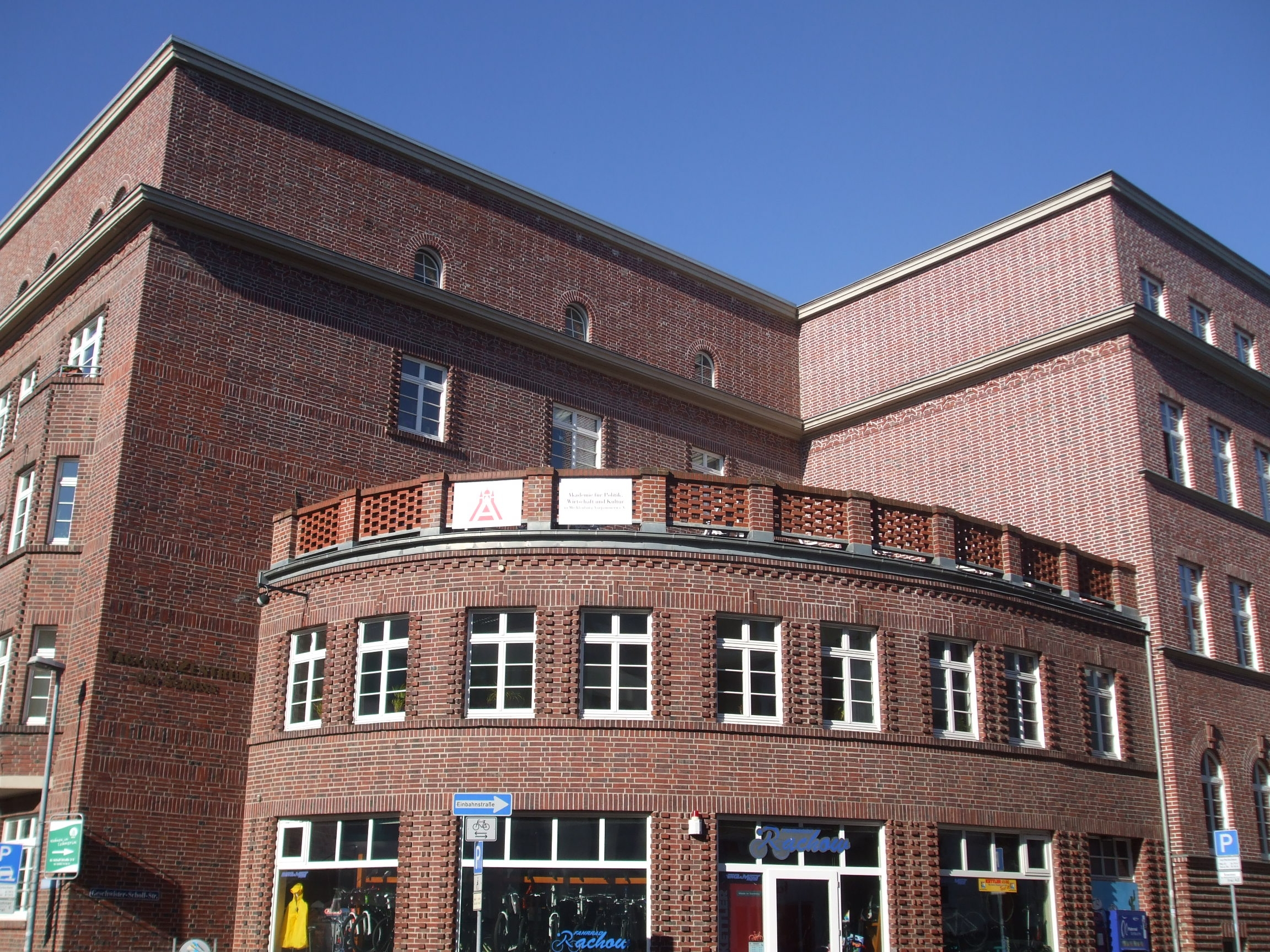 Listed corner building with Clinker brick in downtown of the city Schwerin in state Mecklenburg-Vorpommern in Germany. It is located in street Geschwister-Scholl-Strasse at the corner Mecklenburgstrasse 59, and home to various doctors' surgeries, a bicycle shop and several companies, for example education company Akademie Schwerin.